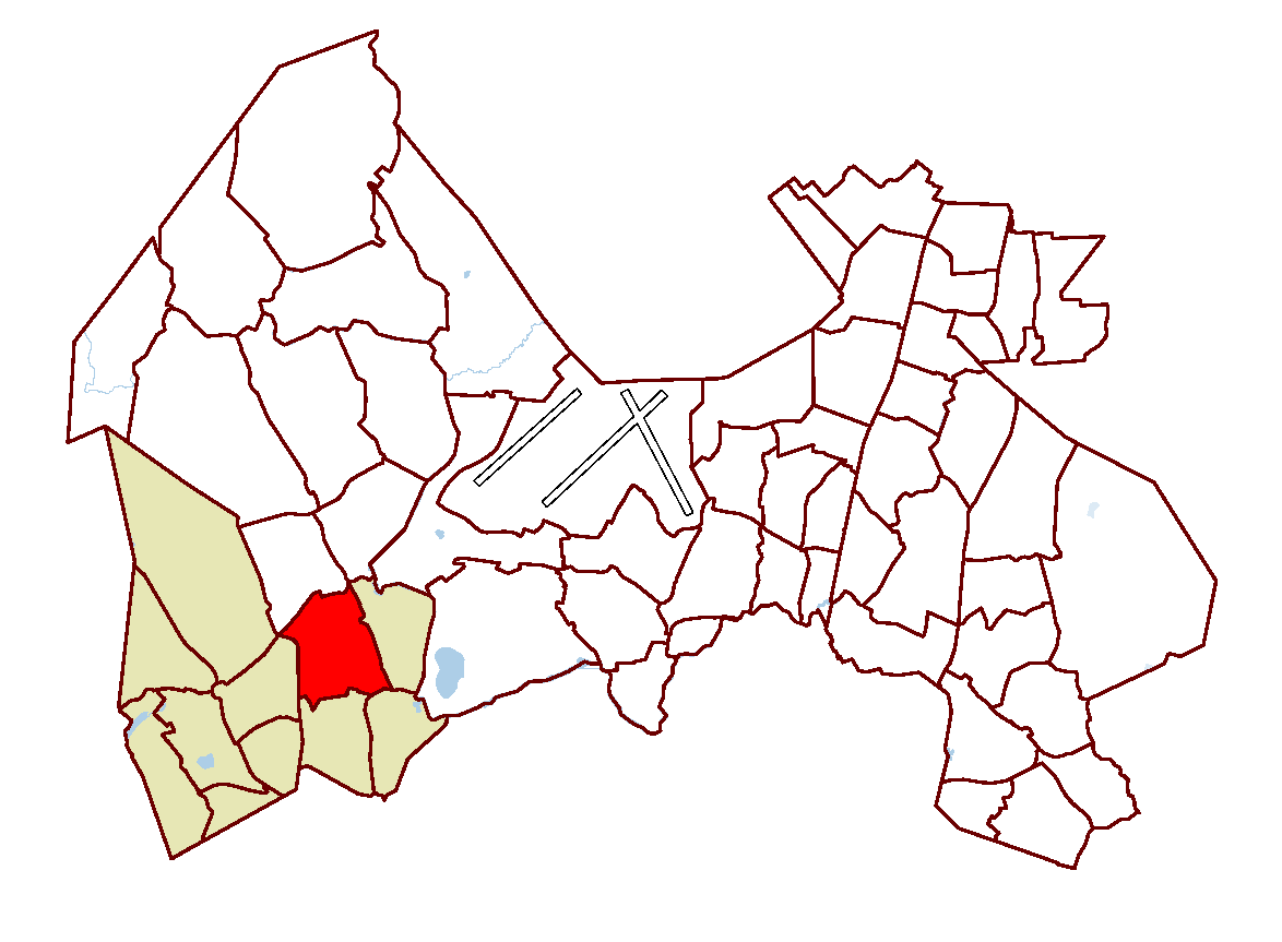 District of Martinlaakso (marked red), within Martinlaakso service area (marked light brown) in Vantaa, Finland